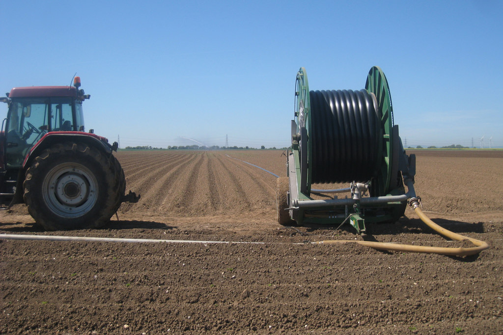 Case MX150 tractor; Irrigation near to Lydd, Kent, Great Britain. This large reel of pipework was being used to pump water from the Jury's Gap Sewer to the sprayer seen in distance further into the field.